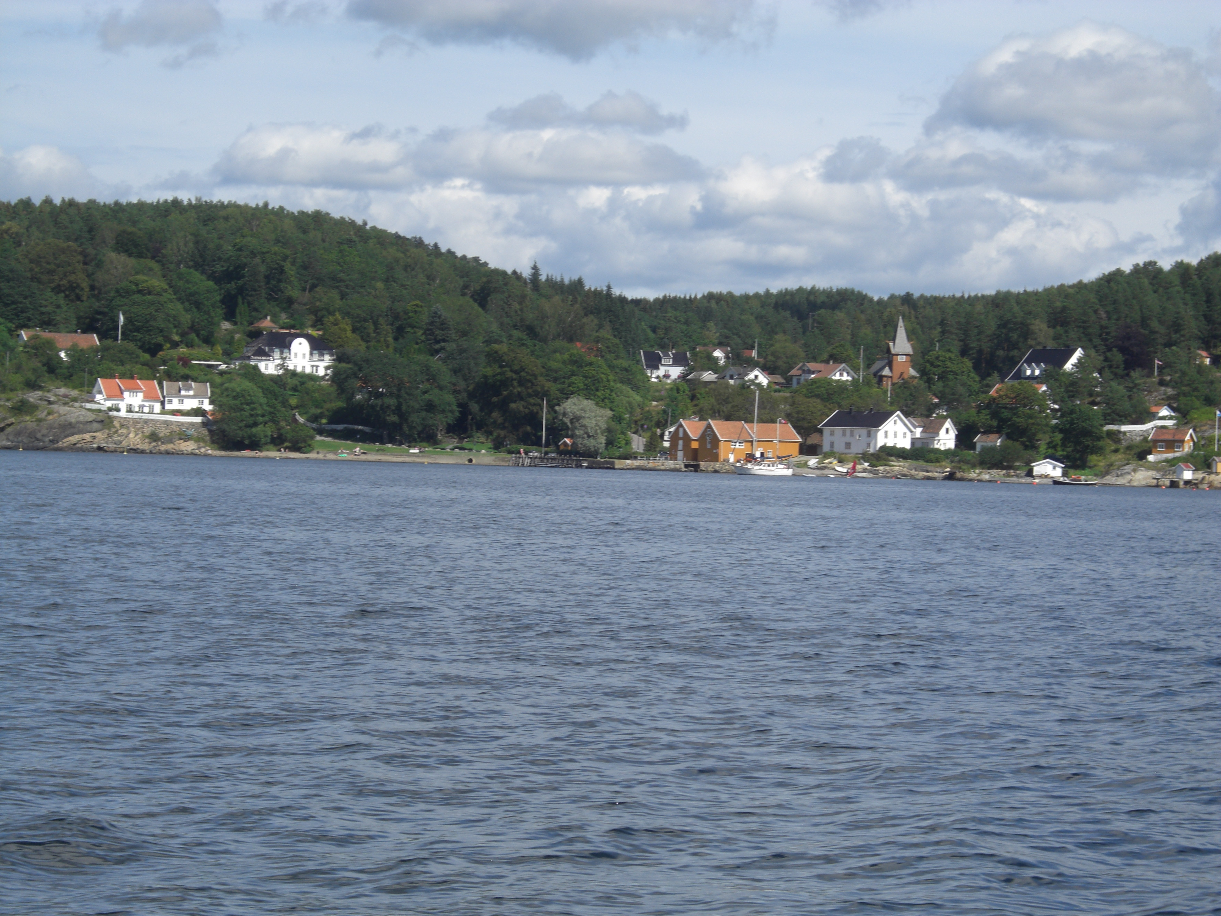 Hvitsten